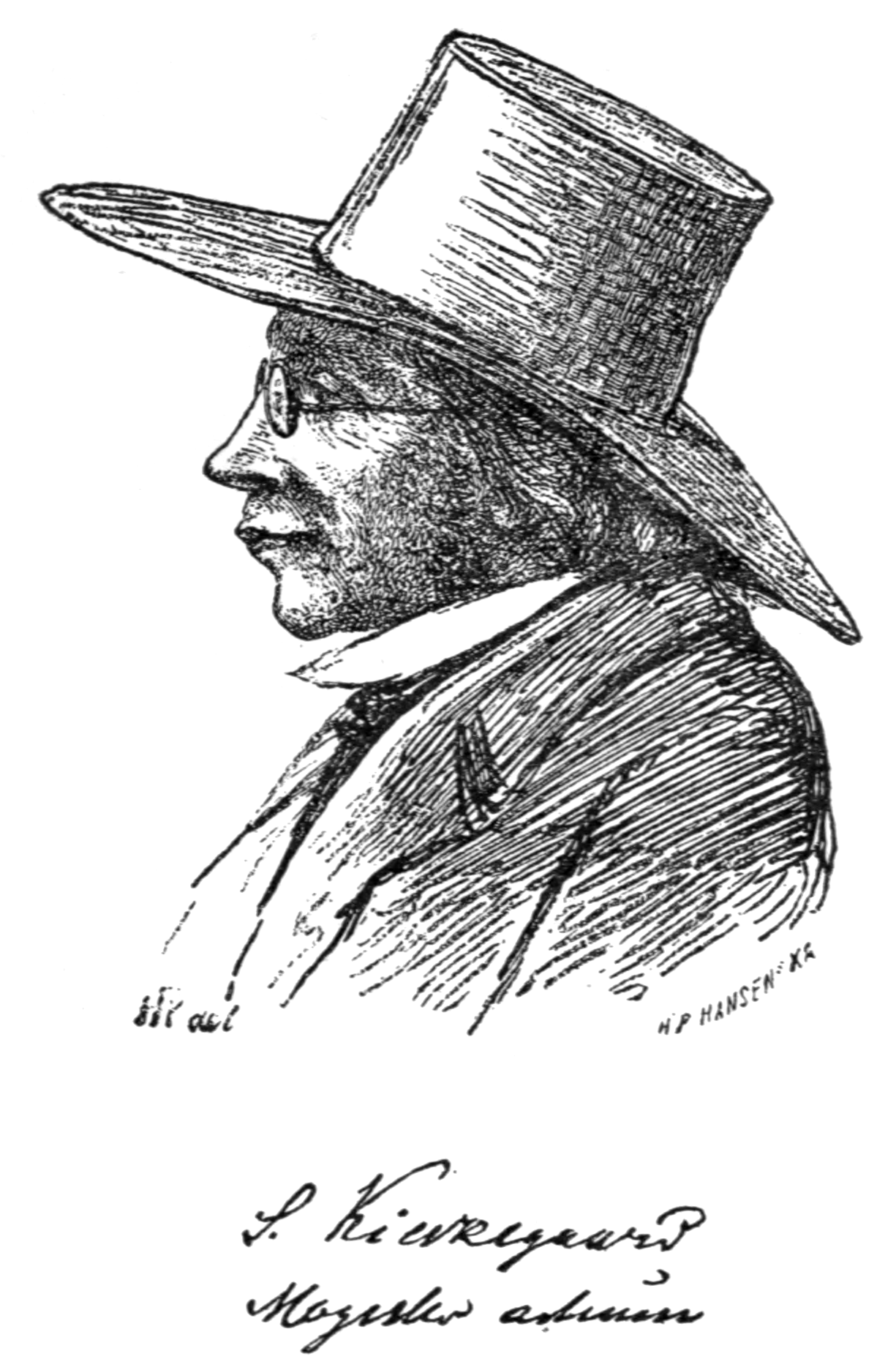 Sketch and Signature of Søren Kierkegaard.